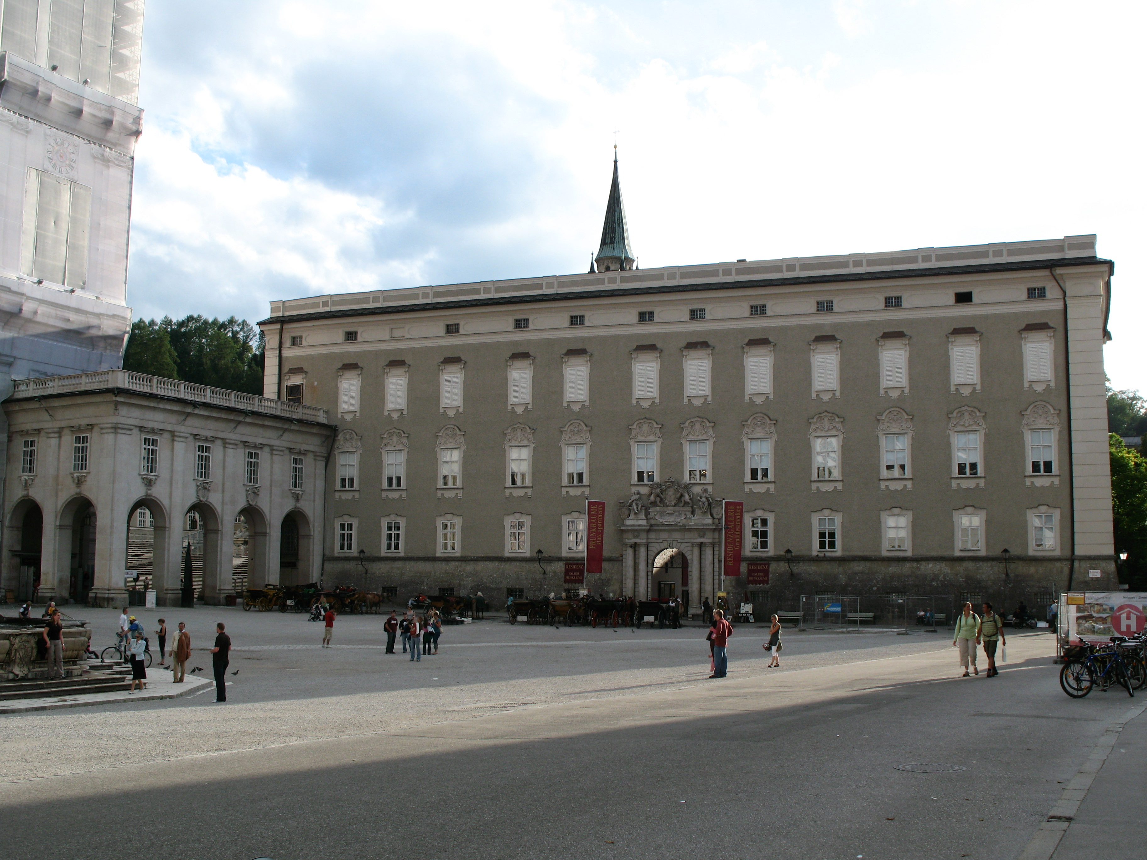 Austria, Salzburg, Residenzplatz